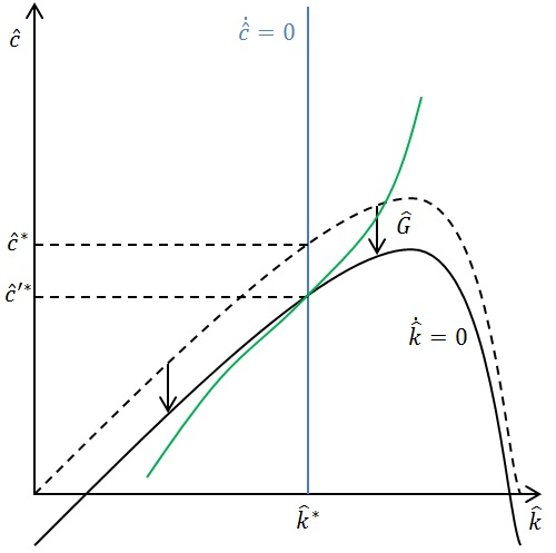 Ramsey–Cass–Koopmans model, phase diagram, fiscal policy